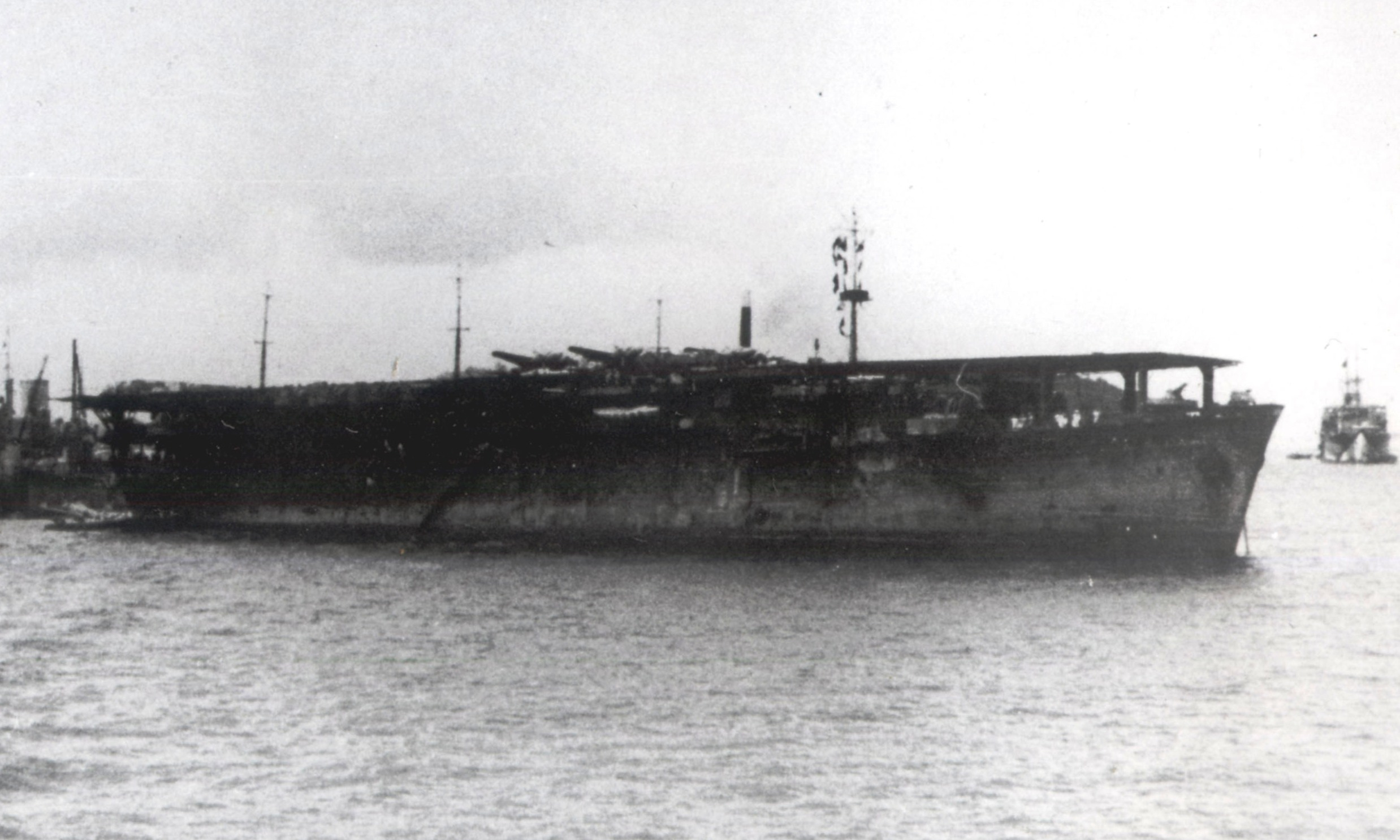 日本海軍航空母艦大鷹型「冲鷹」トラック島にて停泊中の写真。左奥で正面を向けて停泊しているのは同形艦雲鷹。 Imperial Japanese Navy's aircraft carrier, Chu-yo in harbor with Un-yo (right) at Truk Islands.